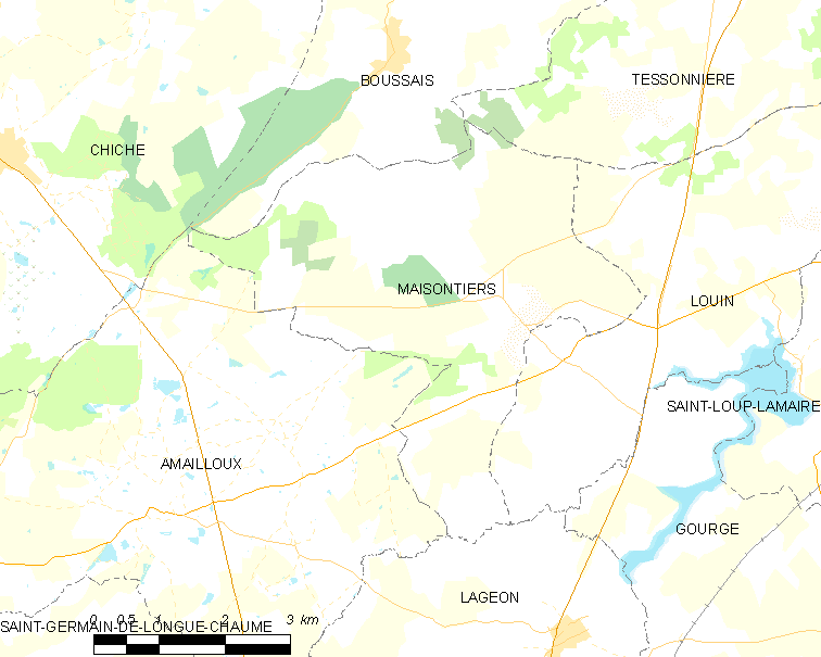 Map of French municipality Maisontiers